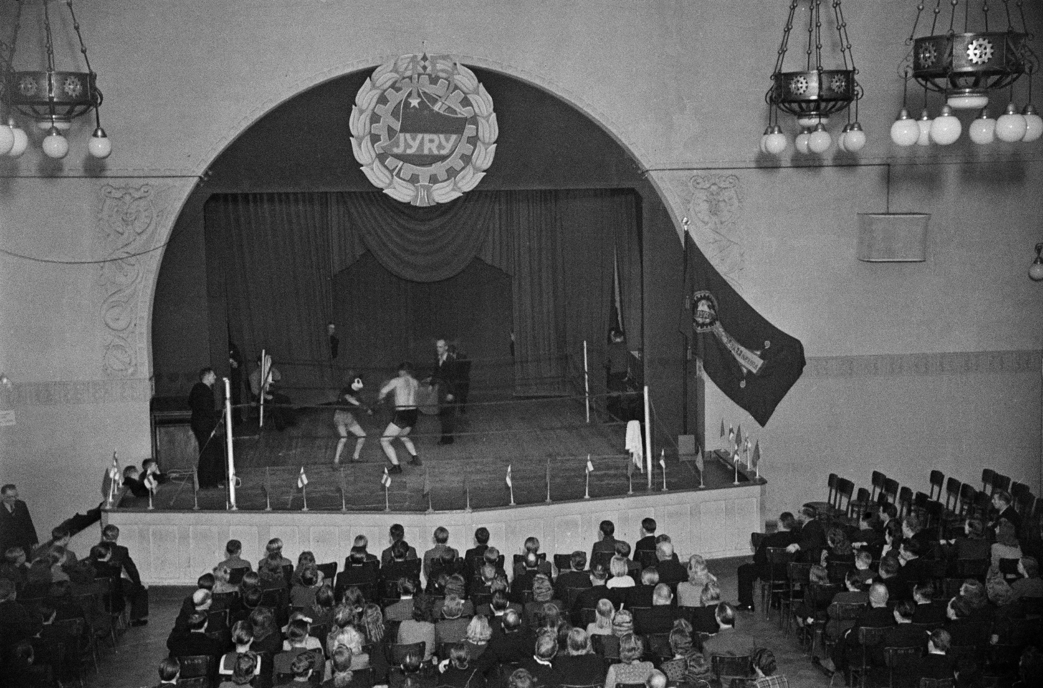 45th anniversary of the sports club Jyry Helsinki at the Helsinki Workers' Hall in 1947. A boxing match with Mickey Mouse.